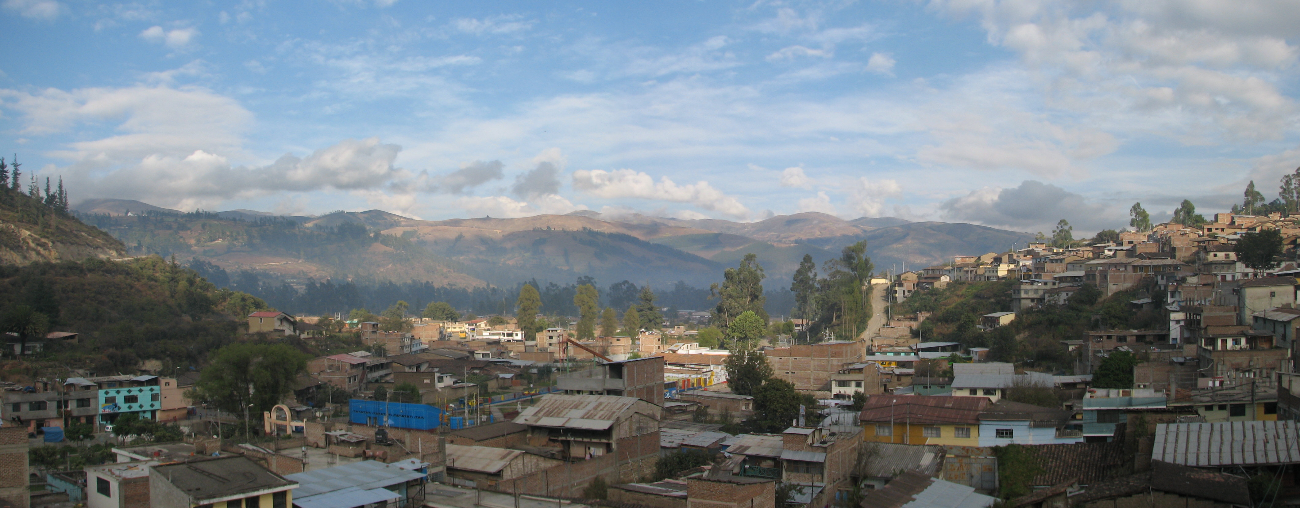 Panoramic view over Andahuaylas, Apurímac, Peru